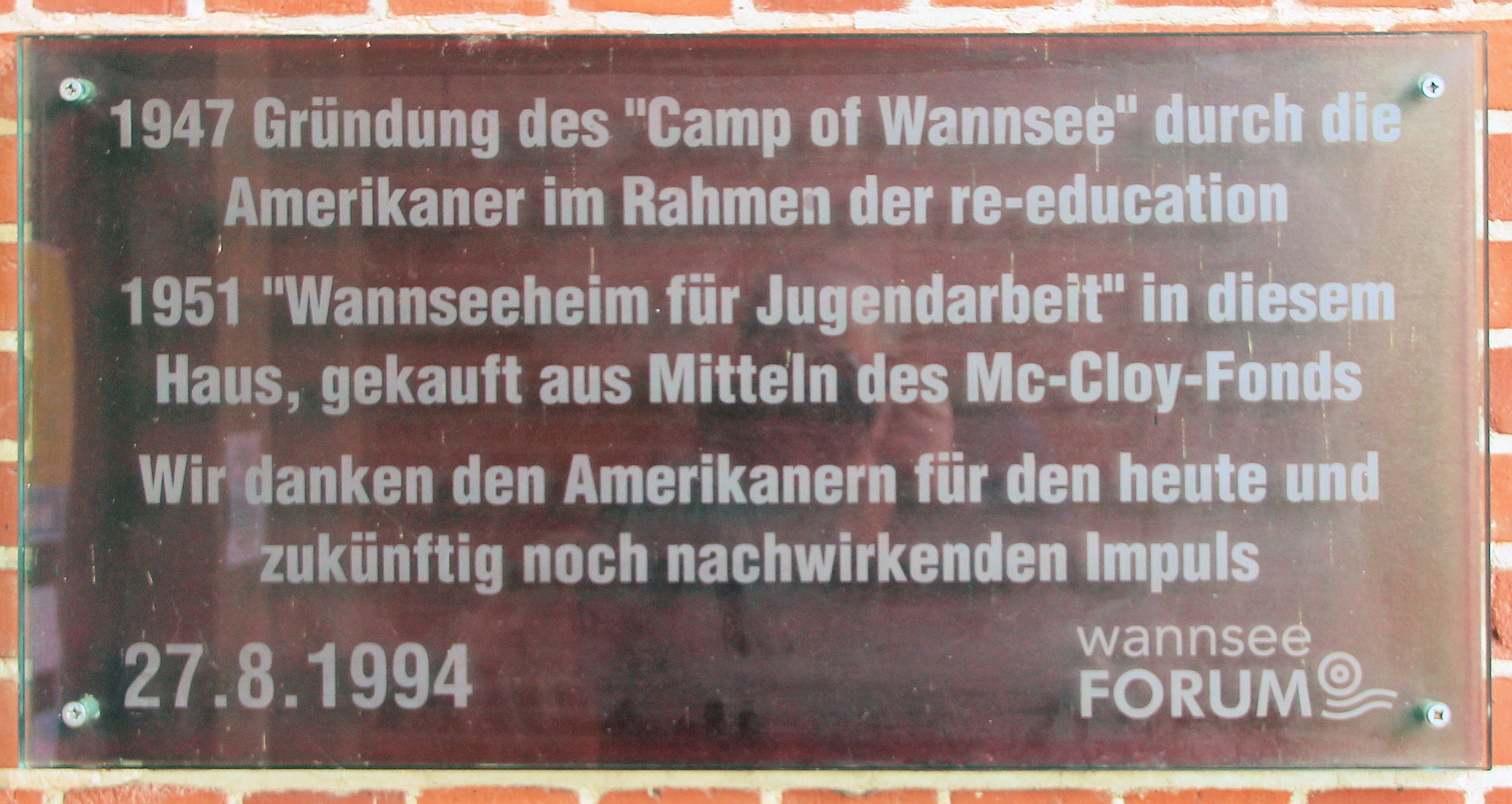 Memorial plaque, Wannseeforum, Hohenzollernstraße 14, Berlin-Wannsee, Germany Koordinate:52°24′46″N 13°9′8″E / 52.41278°N 13.15222°E